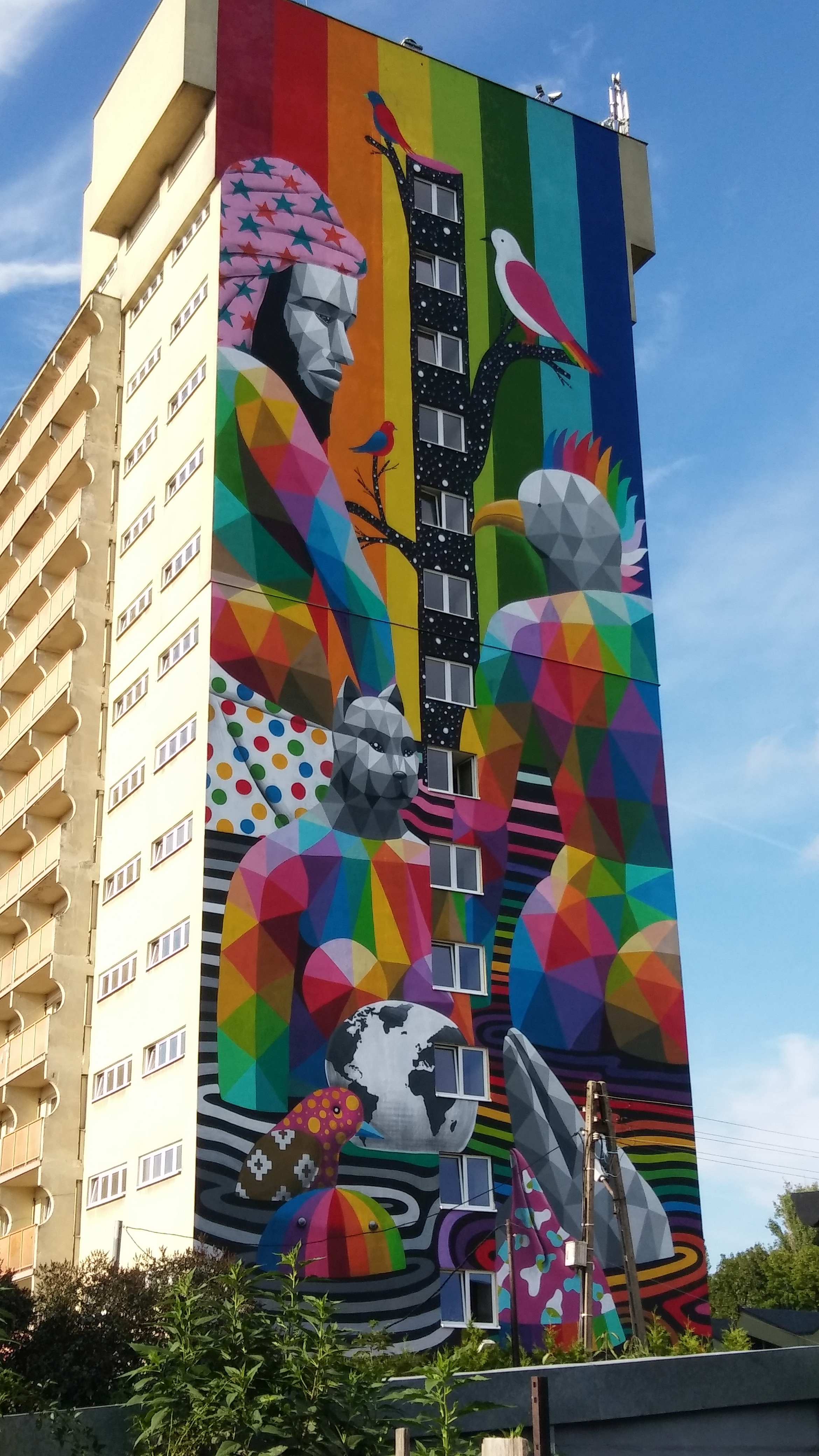 Mural of Okuda (Spain), Łódź 12 Lumumby Street - Lodz University Student's House no 10